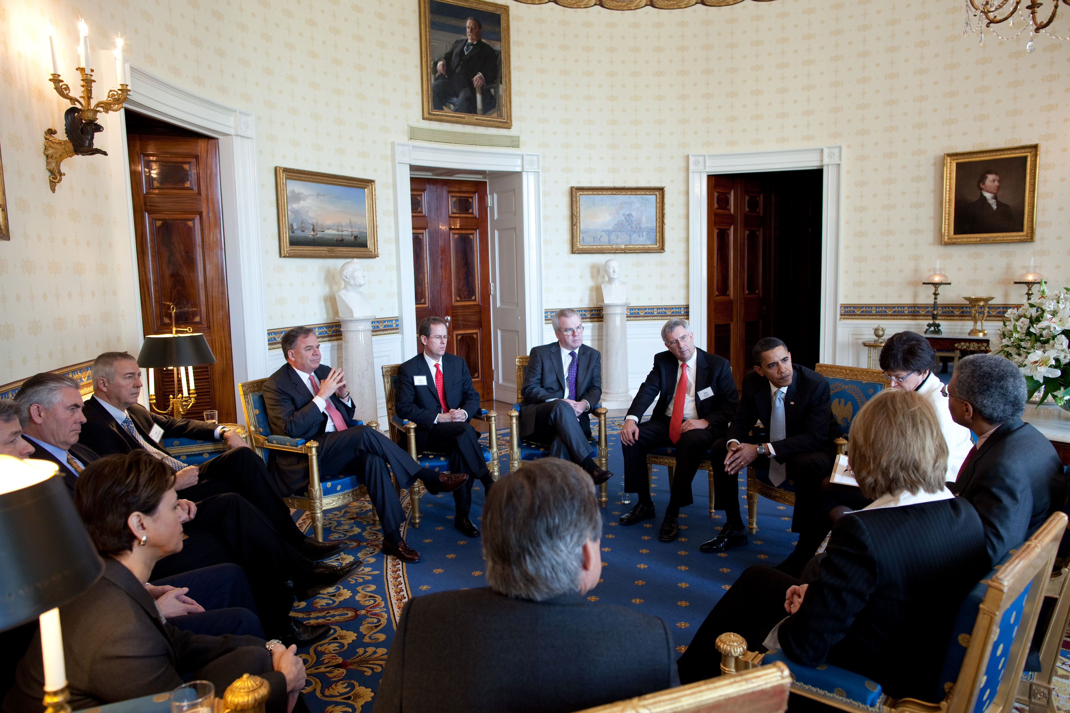 Following a speech to the Business Council in the East Room, President Barack Obama meets with Business Council Leadership in the Blue Room 2/13/09.